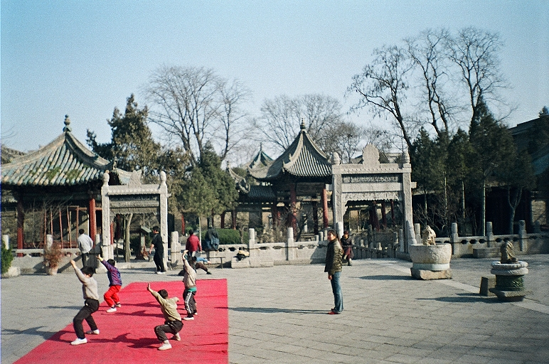 A group of school children practice martial arts formation under the watch of their somewhat stern, matronly teacher in the Great Mosque, Xi'an